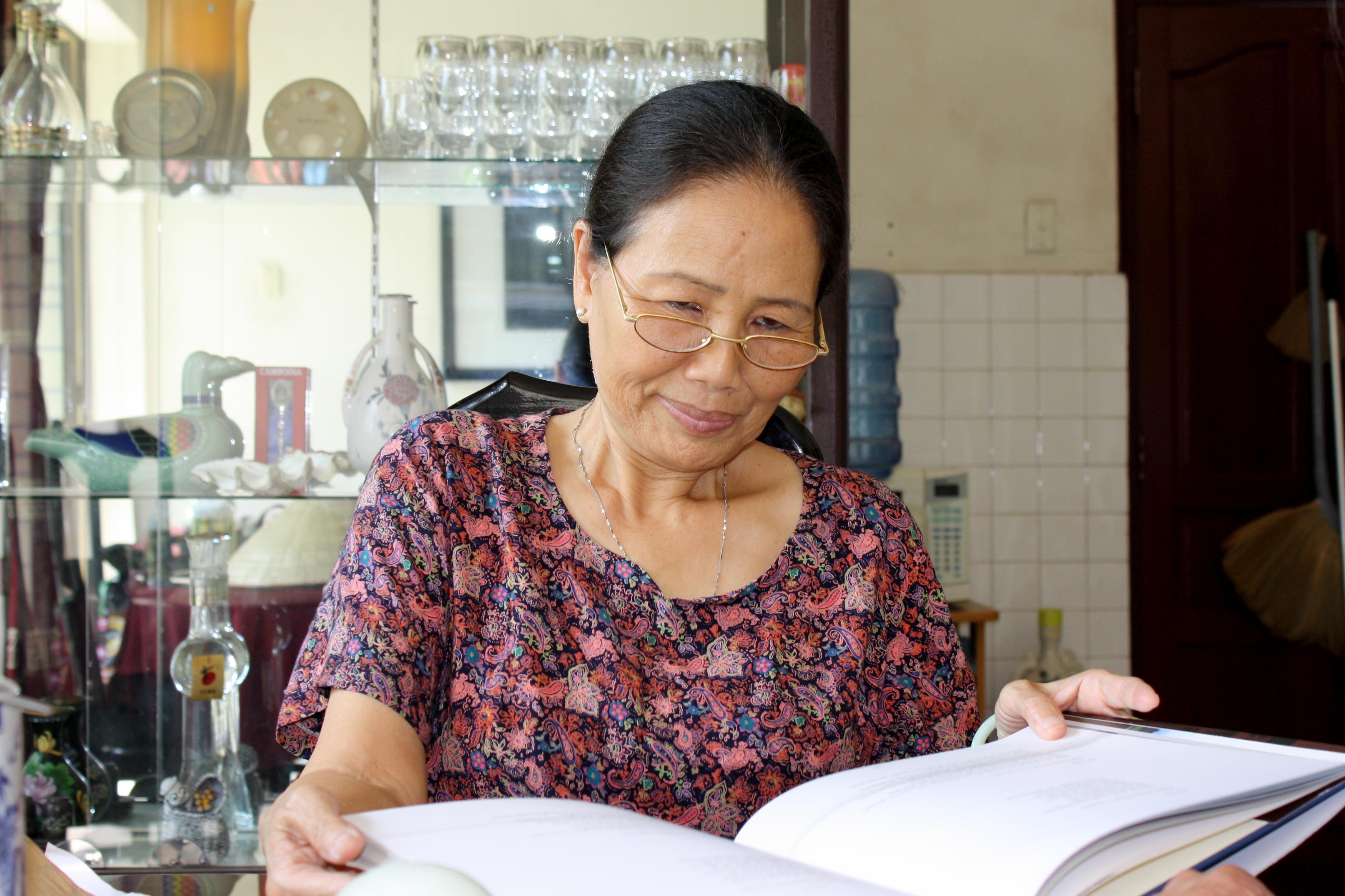 Y Nhi at her home Ho Chi Minh city, 2010. Photo by Helen Nguyen